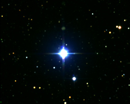 Acrux binary system, with HD 108250. Composite image made from public domain J, H, K bands of NASA 2MASS mission. (see here for images).